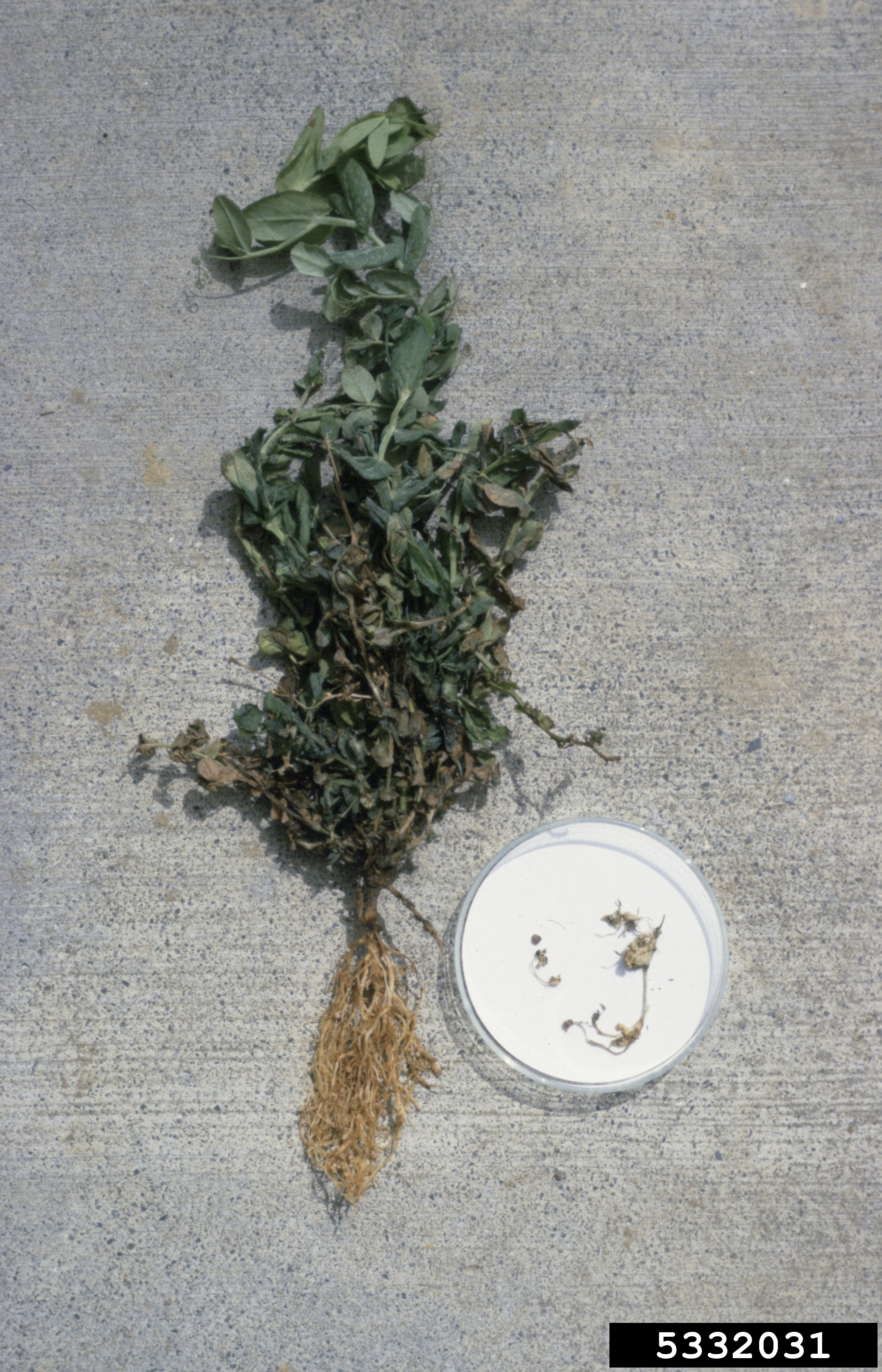 Sclerotinia stem rot on Trifolium spp